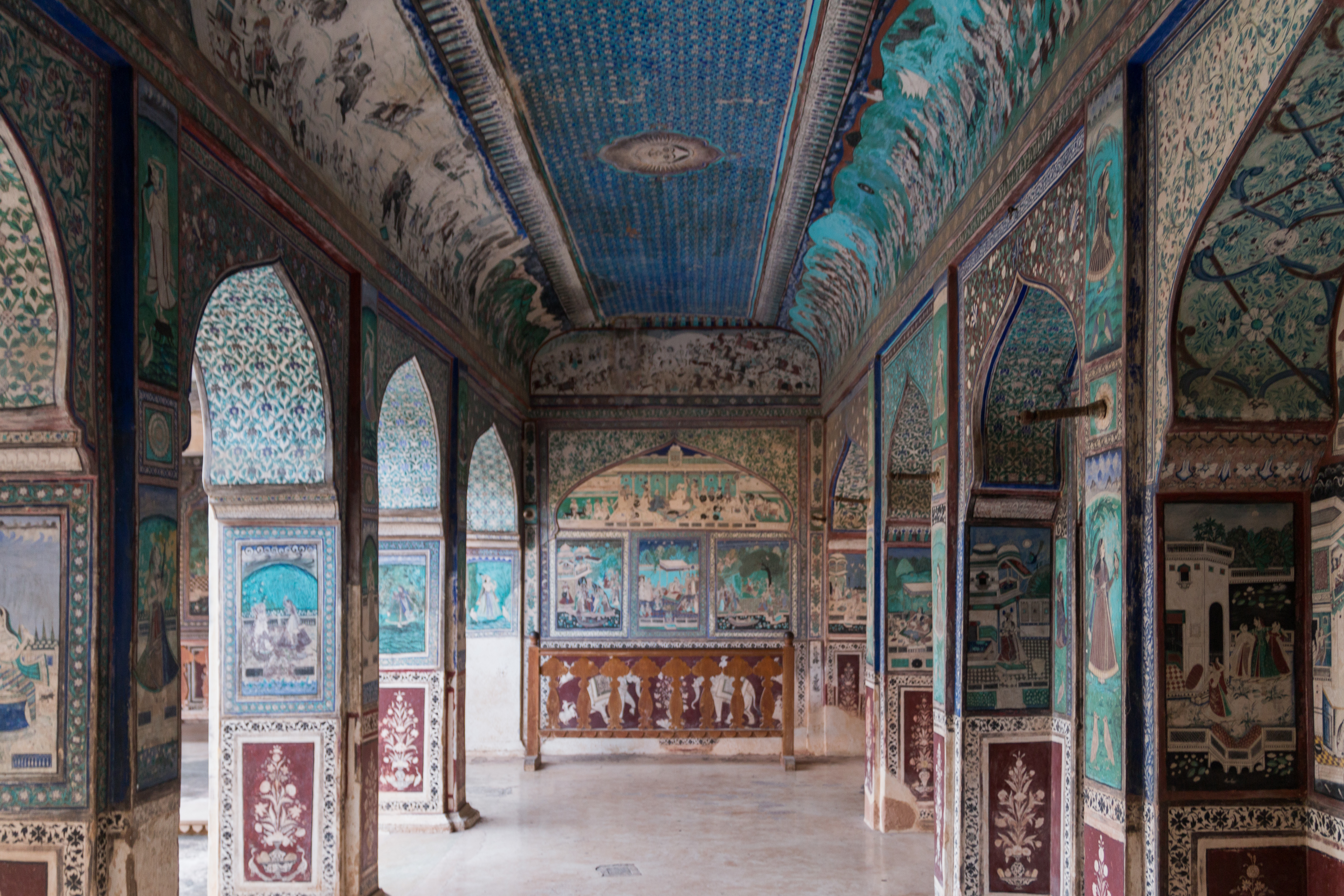 Gallery on which open rest and refreshment rooms.